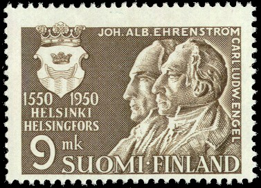 Postage stamp depicting Finnish diplomat Johan Albrecht Ehrenström and architect Carl Ludvig Engel